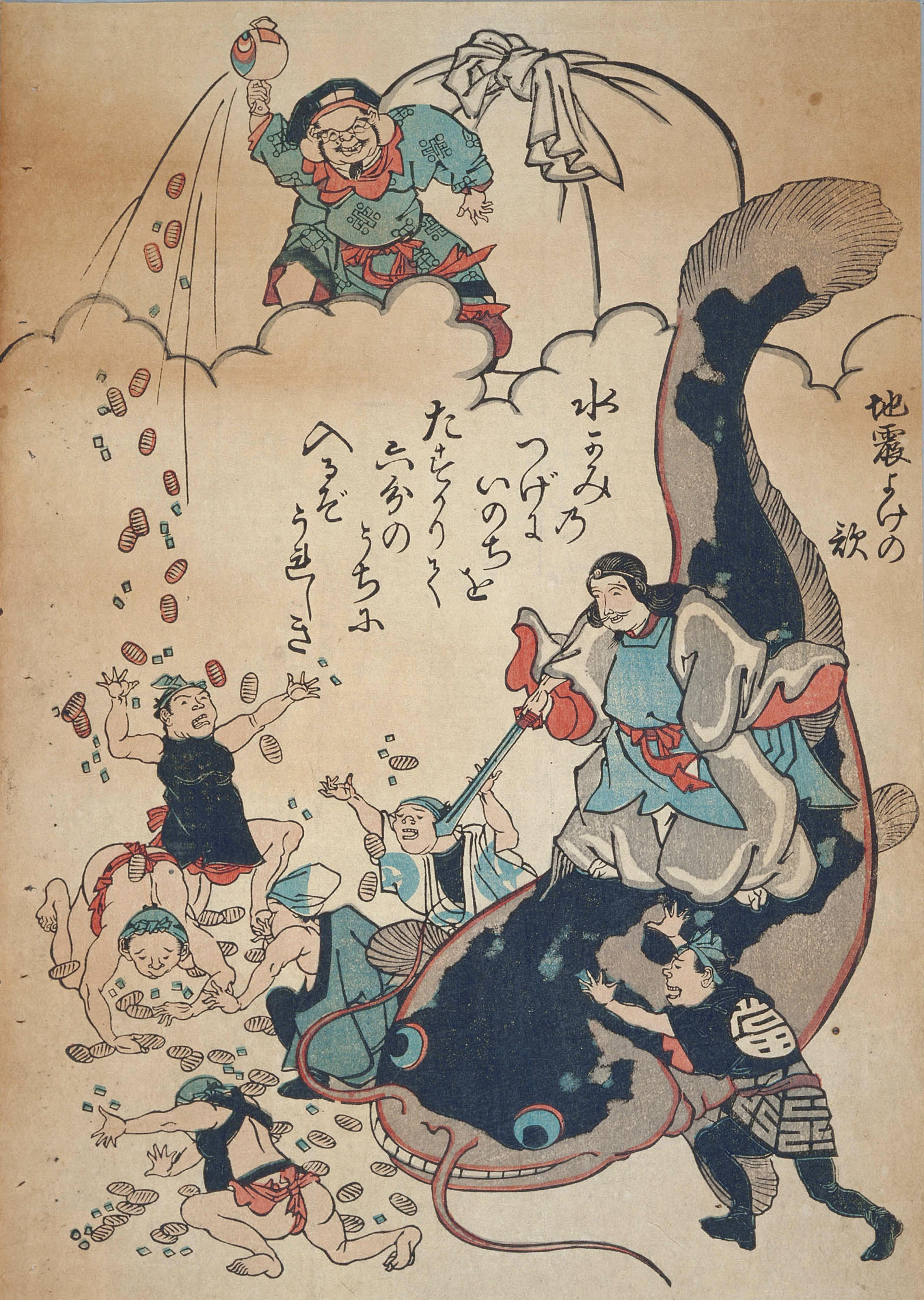 Namazu-e - Daikoku redistributes wealthies's riches. A kawaraban (woodblock pamphlet type newspaper). Title:Jishin yoke no uta (earthquake-averting song). The kyōka poem inscribed Minakami no tsuge ni inochi wo tasukarite roku bu no uchini iruzo ureshiki "(thanks to) the Water god's message (we are among) the six out of ten whose lives were saved, happily". The mallet-shaking god is probably Daikokuten; the catfish rider is presumably Takemikazuchi.